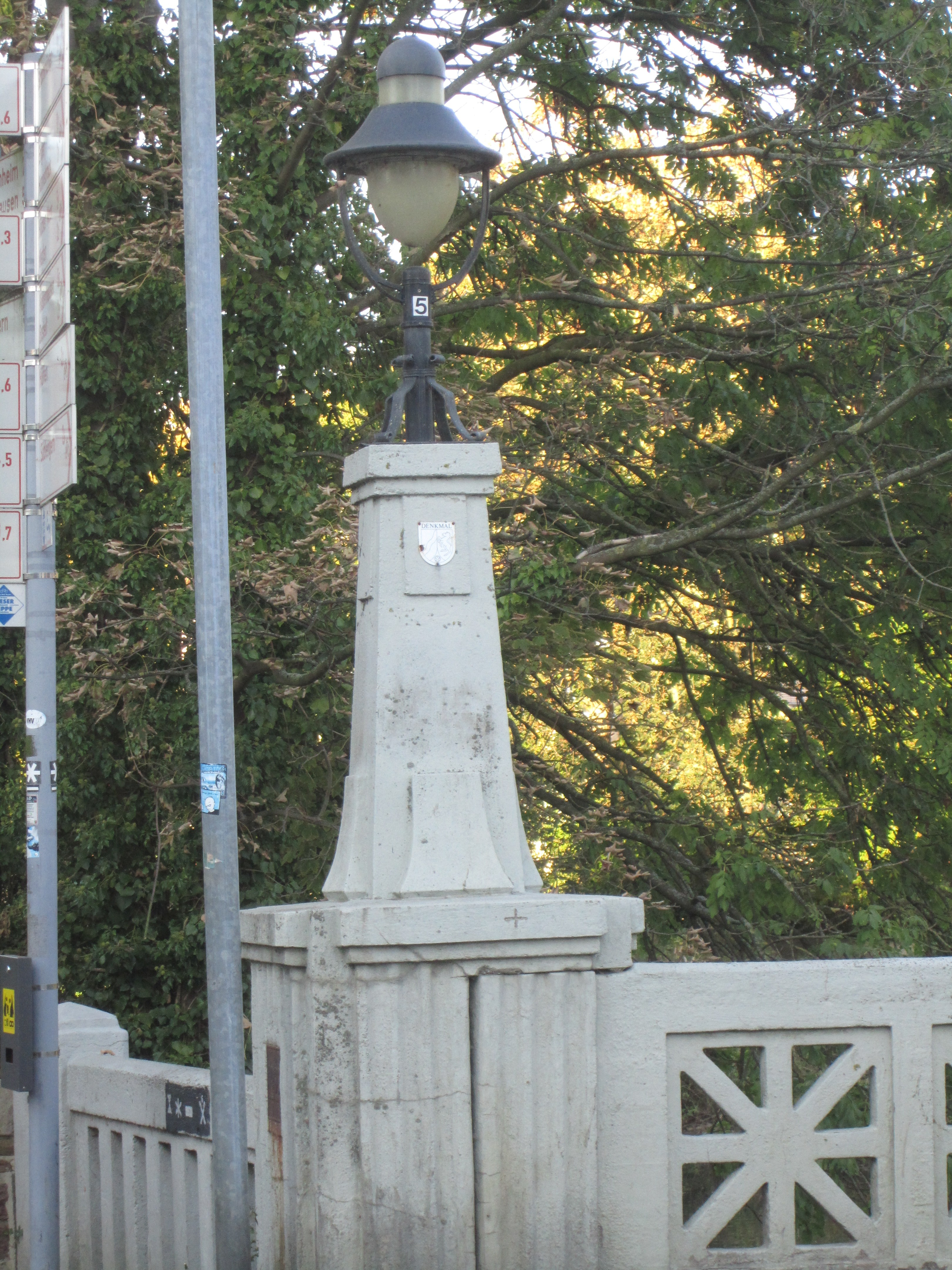 in Bünde, District of Herford, North Rhine-Westphalia, Germany.